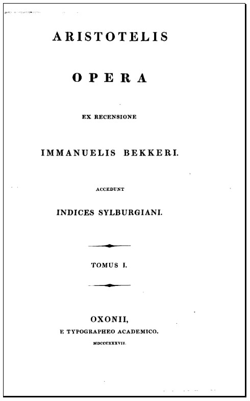 Aristotelis Opera Omnia from year 1837. Title page.